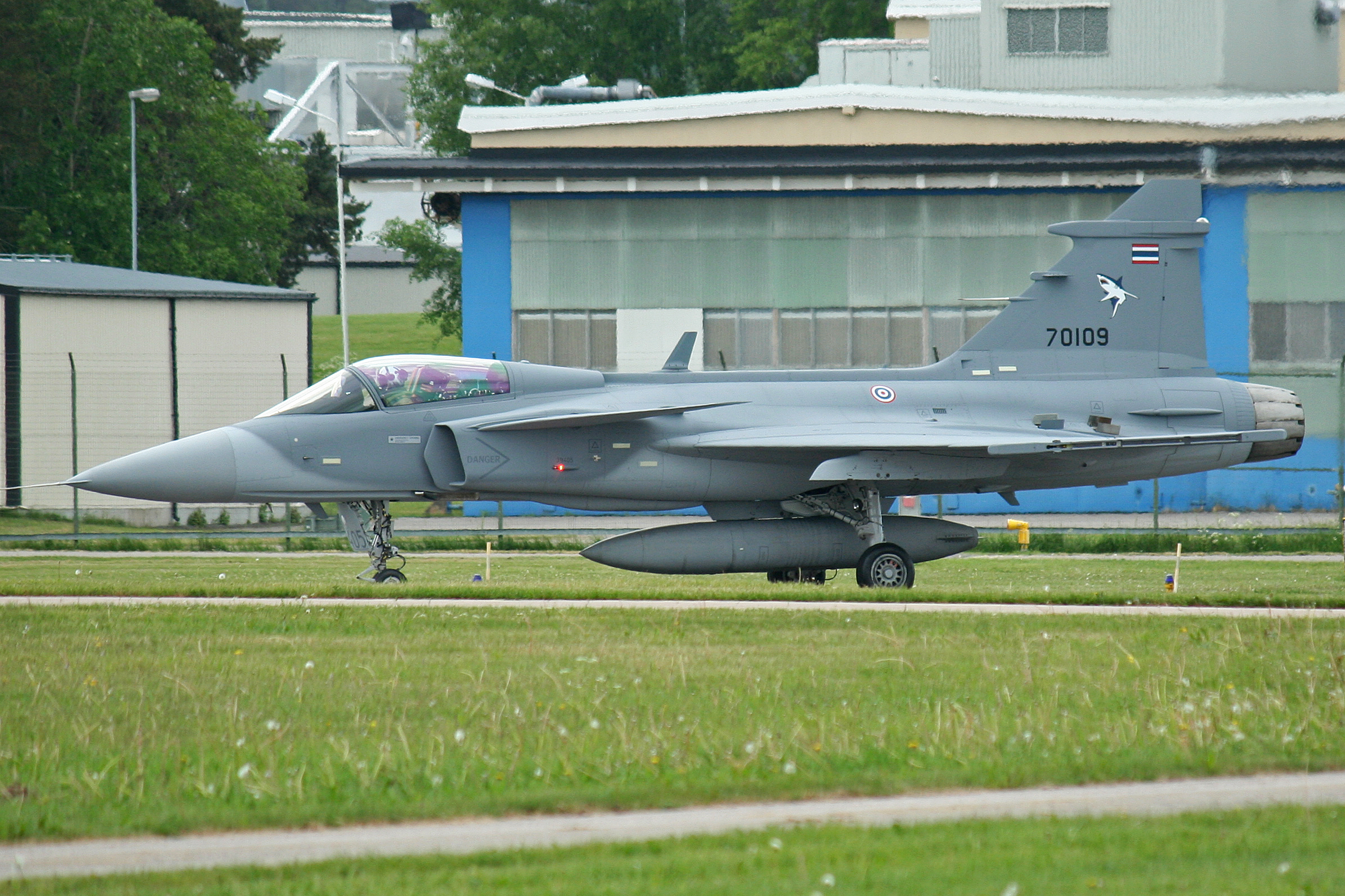 Brand new 'C' model Gripen for the Thai Air Force, seen taxiing out for a flight from the factory. msn 39-405. Linkoping (Saab). 04-6-2012